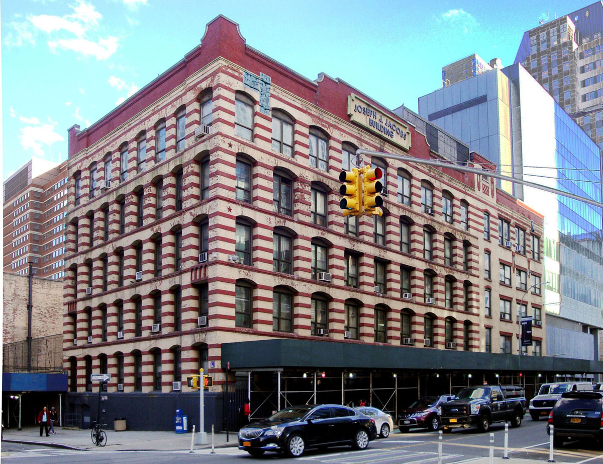 Jacob's building of NYU Tandon School of Engineering